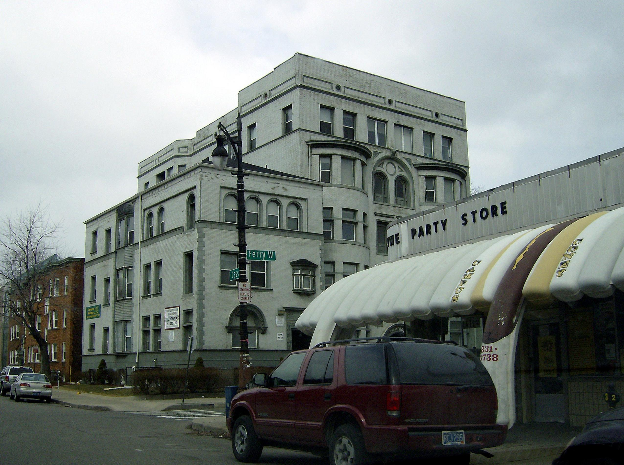 self made